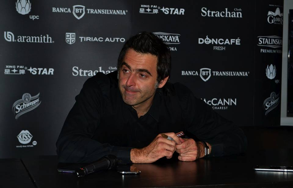 Ronnie O'Sullivan at 2016 European Masters in Bucharest, Romania